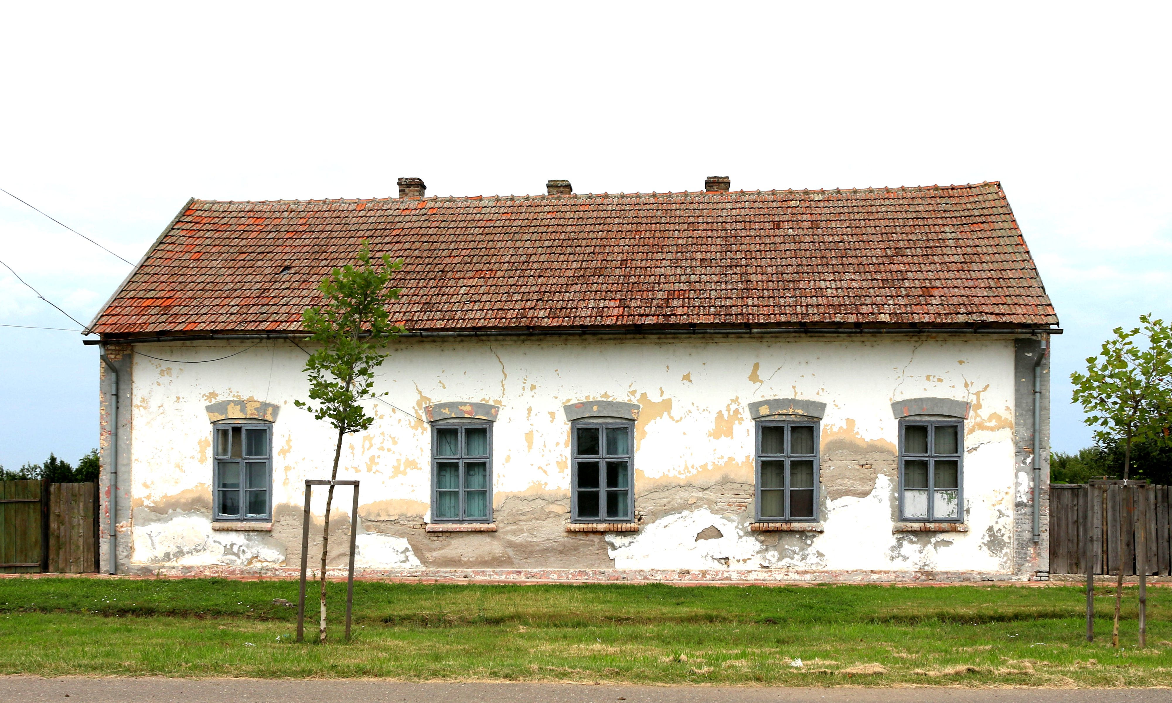 School of Agriculture, Sânnicolau Mare, România, built 19th century